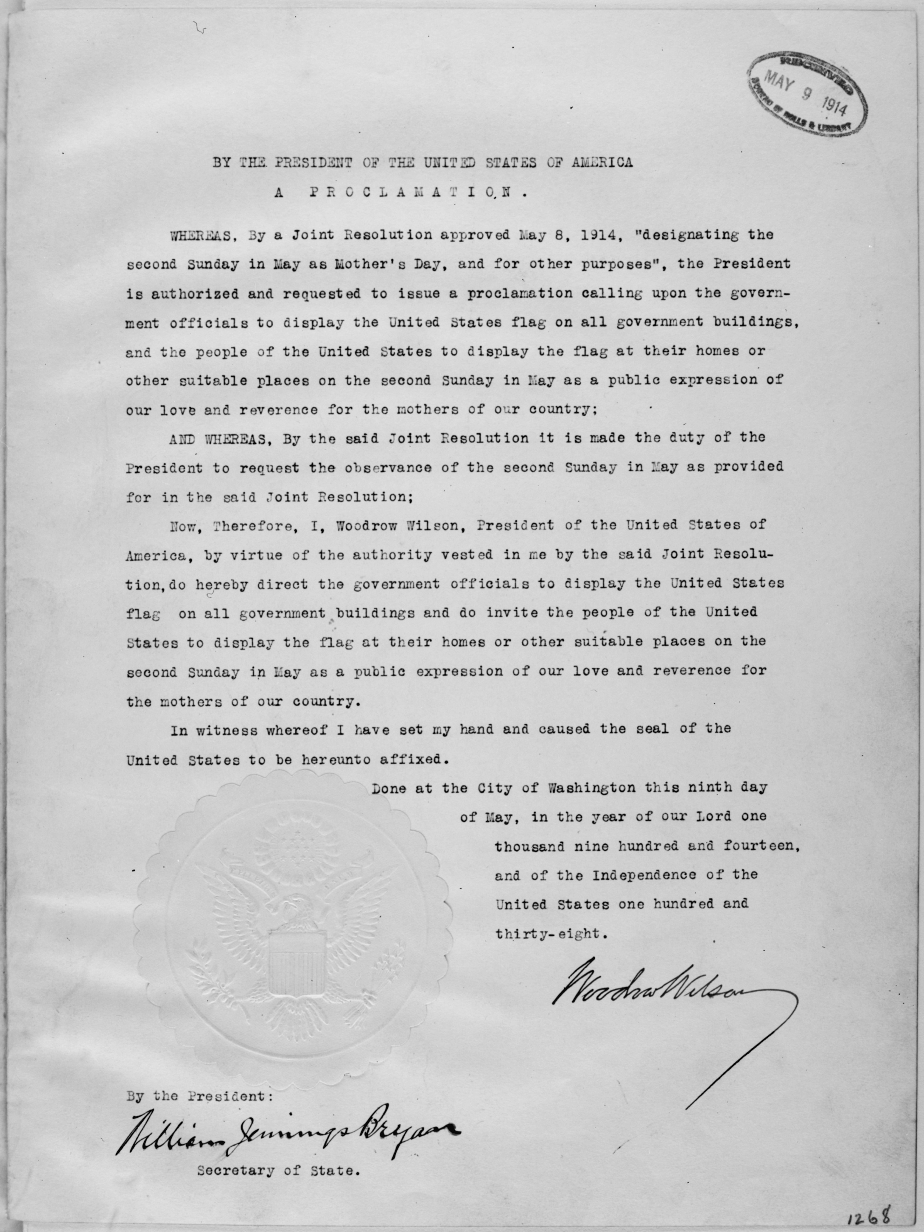 General notes: This proclamation has been reproduced on National Archives Microfilm Publication T1223.